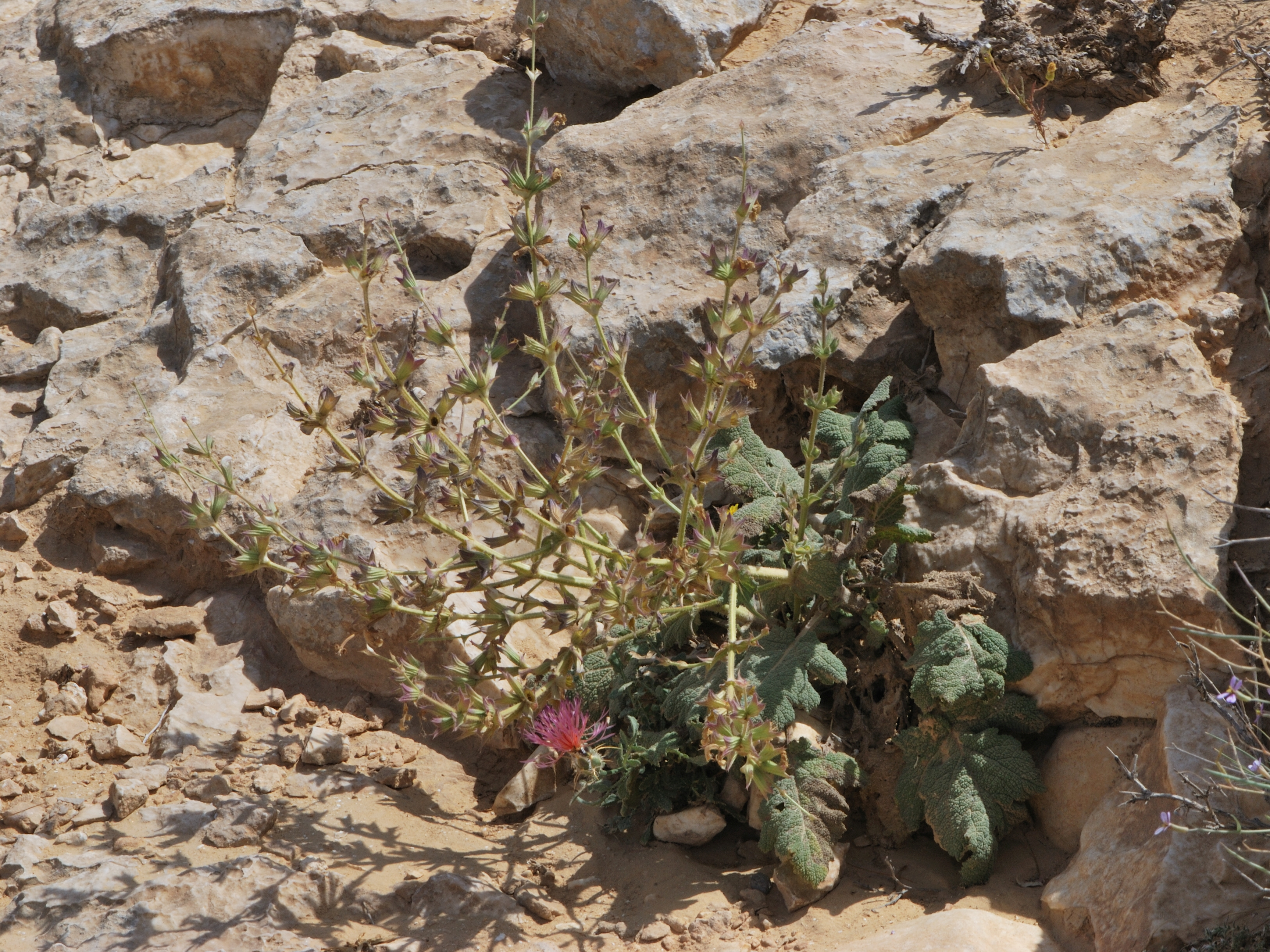 Salvia palaestina Benth., April 16 2010, Negev Mountains, Israel.